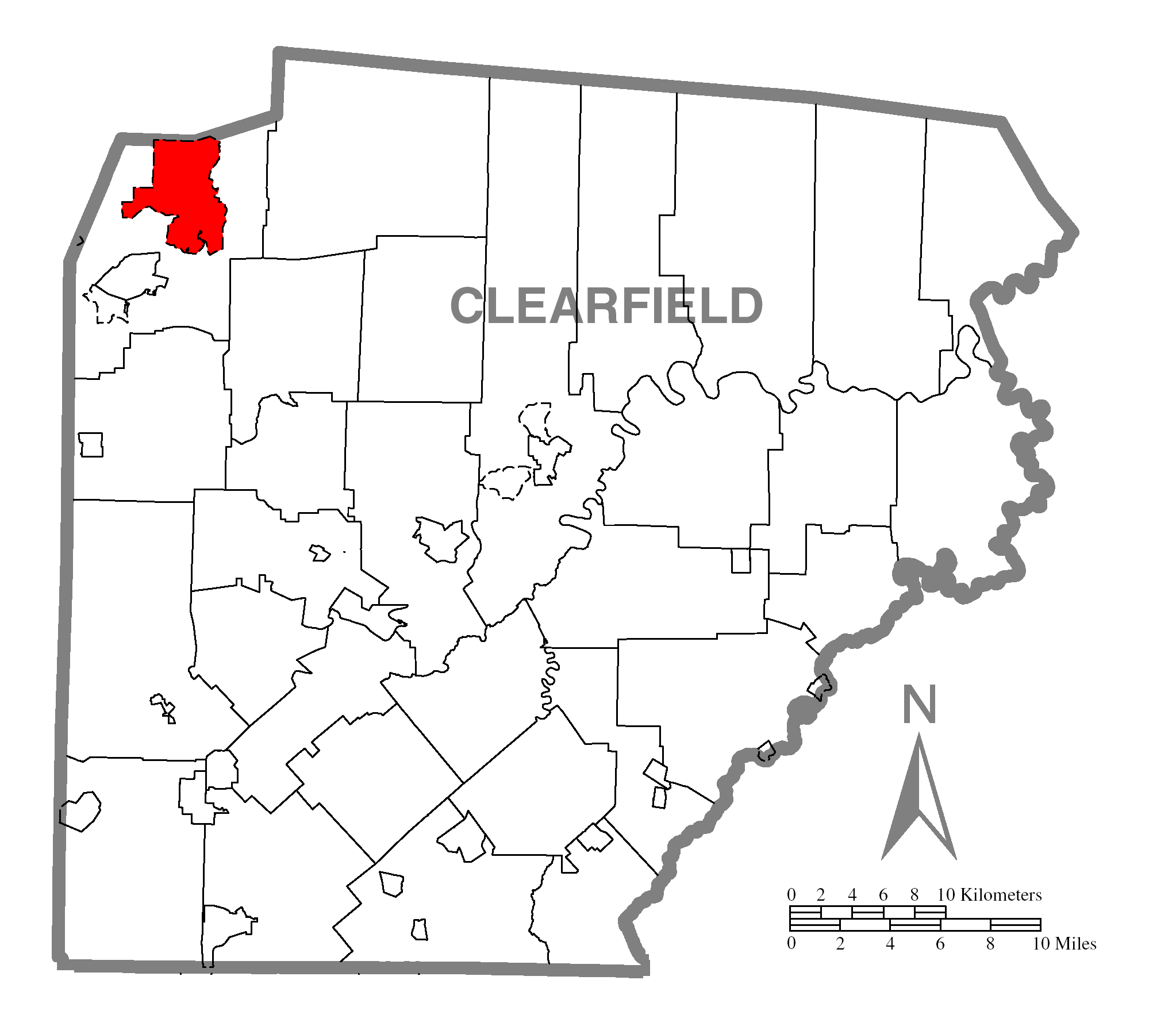 A map of Clearfield County showing Treasure Lake, Pennsylvania (alternate) highlighted on the map.